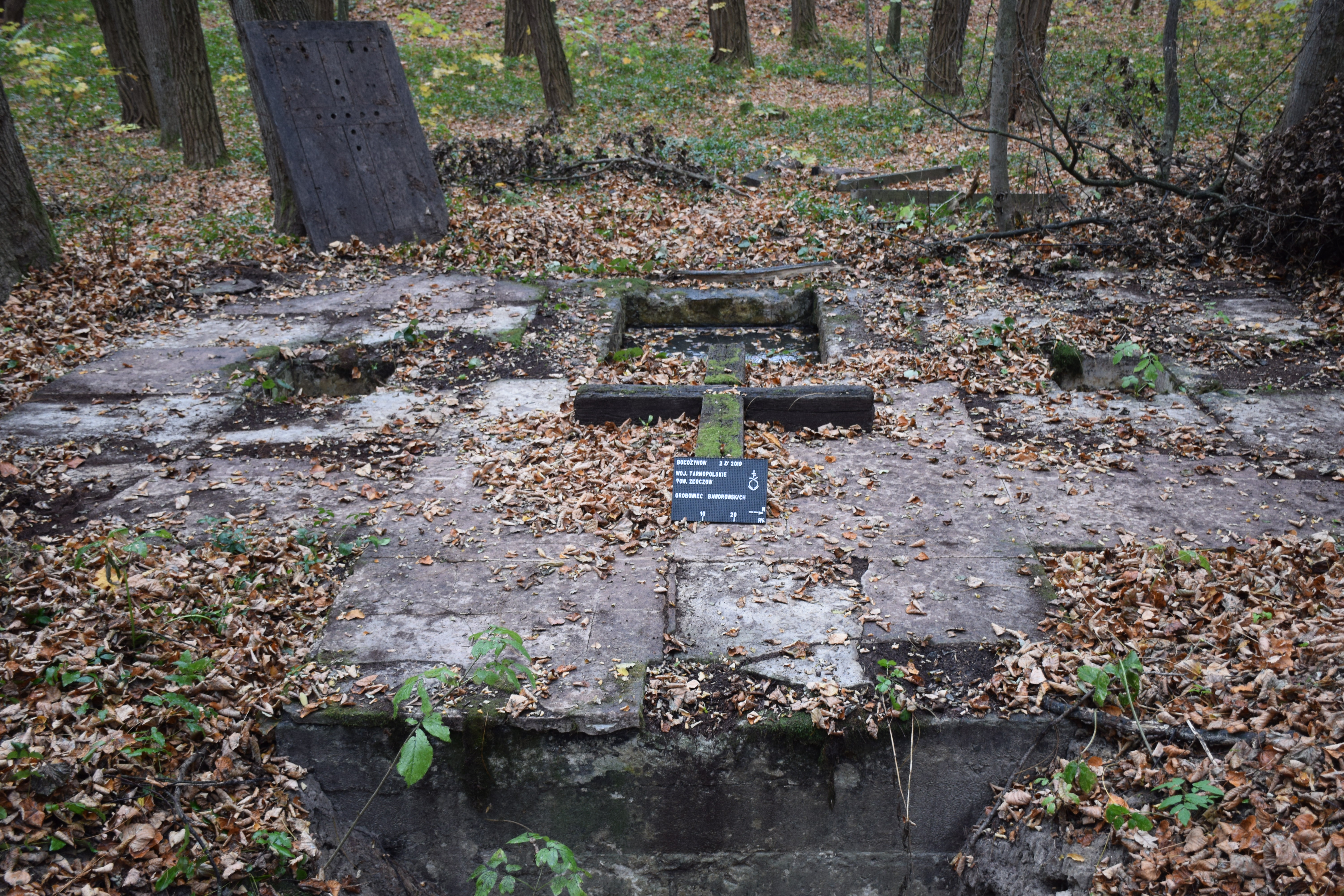 The grave of Baworowski family in Bołożynów-Lenia.